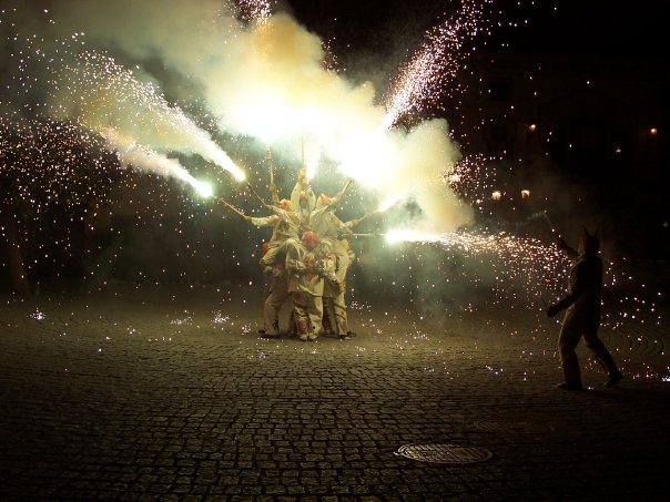 Costumes Devils Dance Association cursed Salou